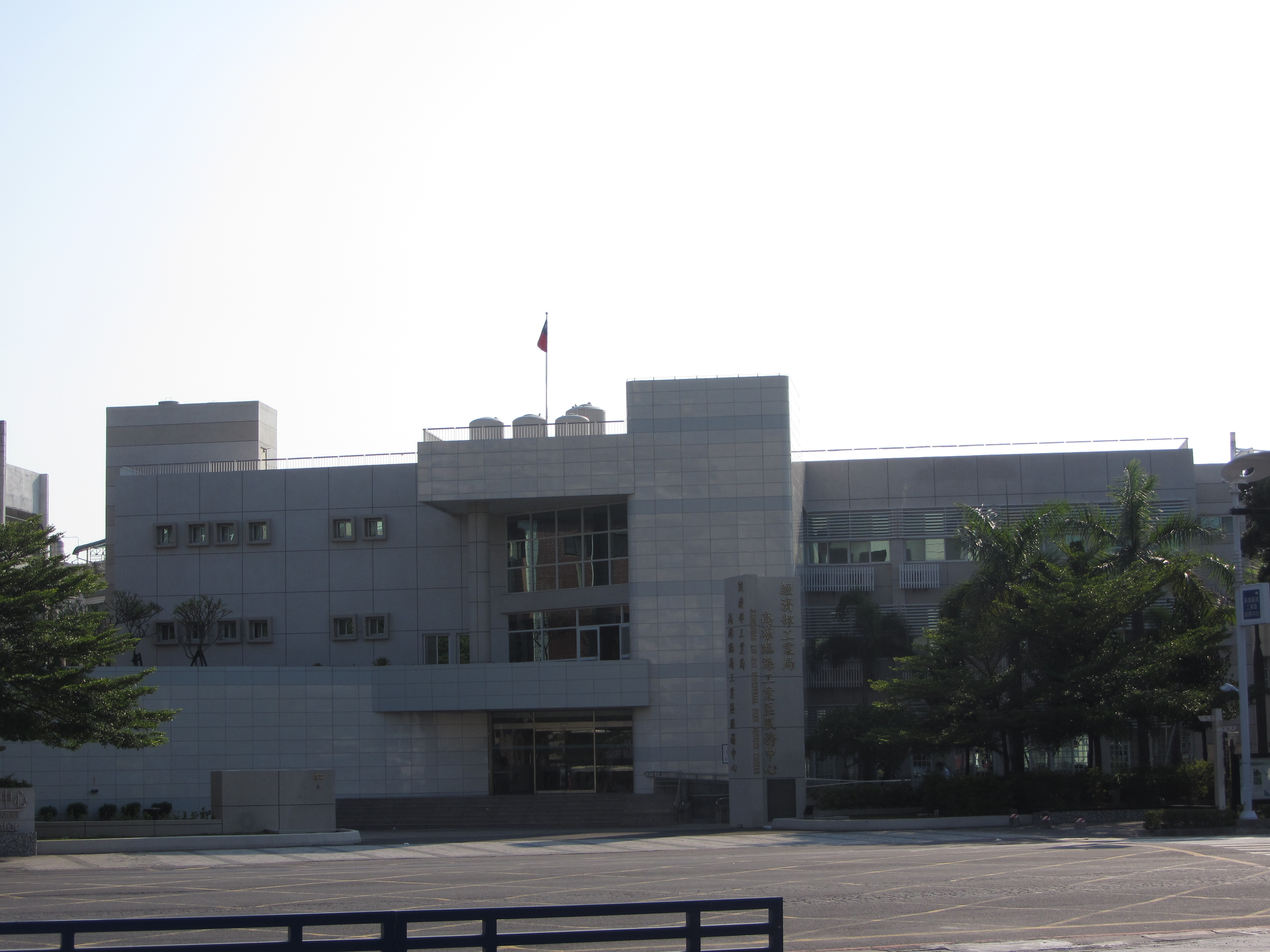 Kaohsiung Lin-hai Industrial Park Service Center, Industrial Development Bureau, MOEA